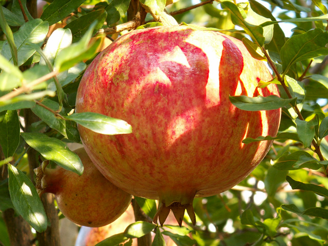 Pomegranate (Punica granatum)